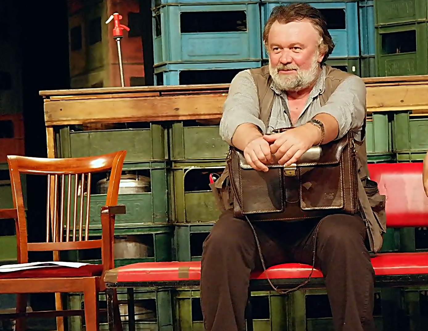 Imre Csuja